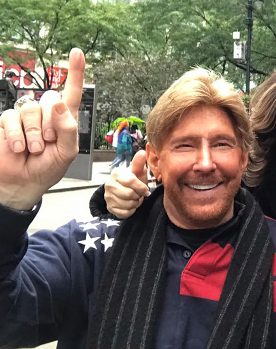 Kevin Saunders in New York City, October 2019